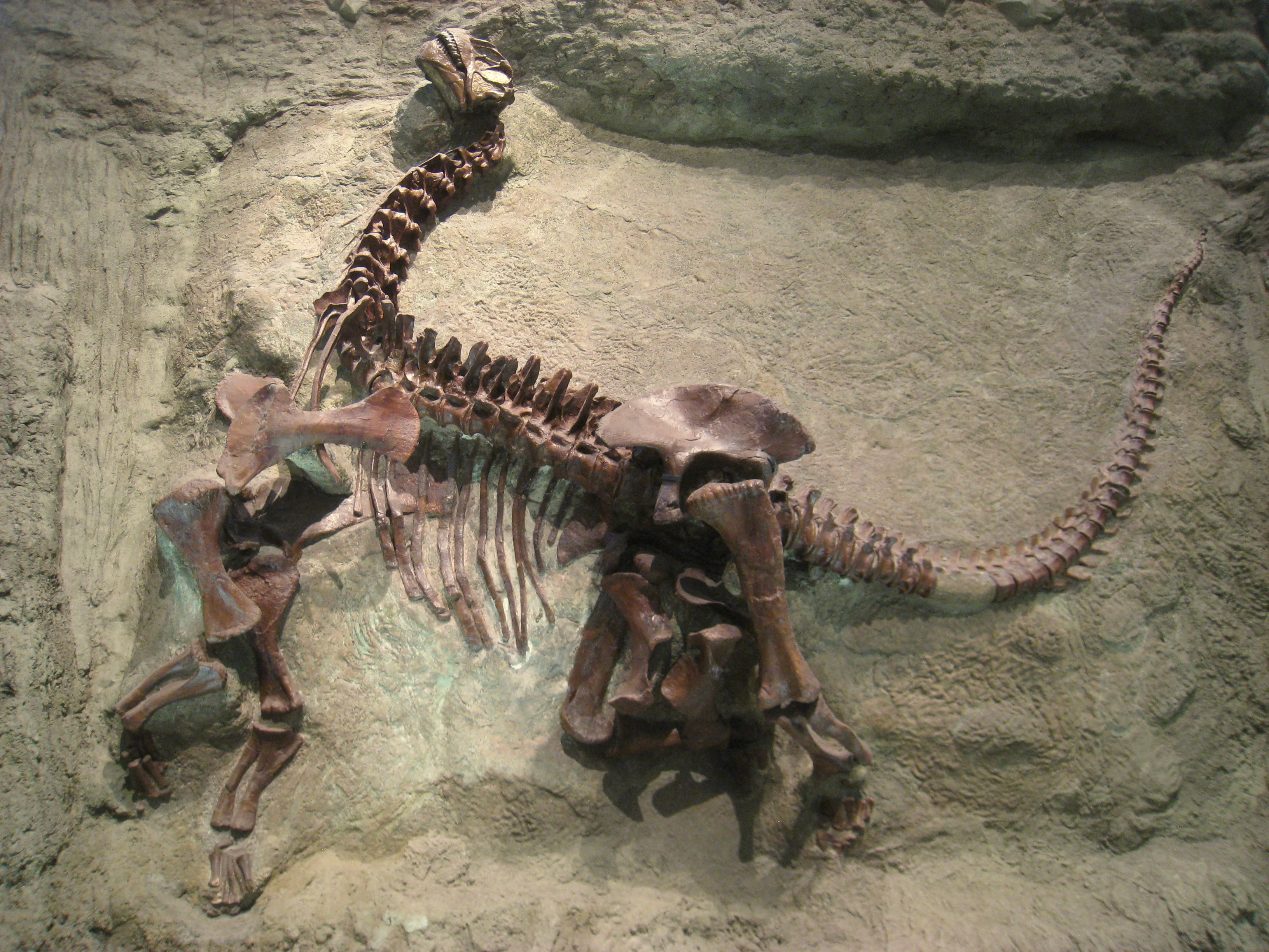 Camarasaurus lentus, Carnegie Museum of Natural History, Pittsburgh, Pennsylvania, USA.